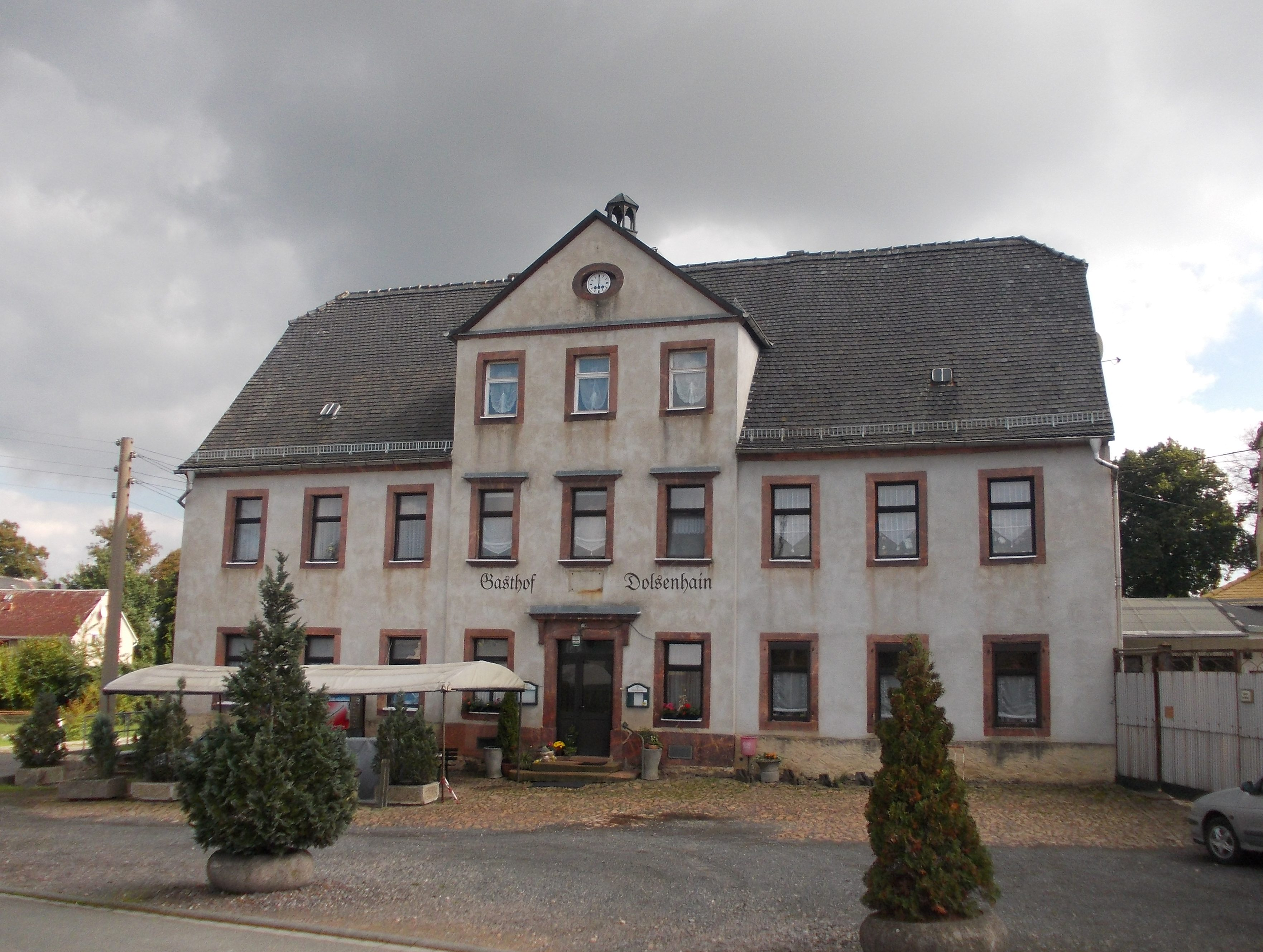 Dolsenhain inn (Kohren-Sahlis, Leipzig district, Saxony)